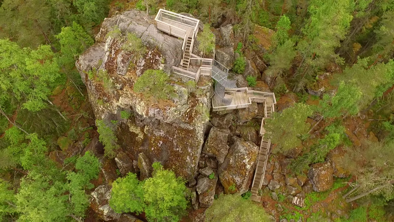 Stone made by the ice age